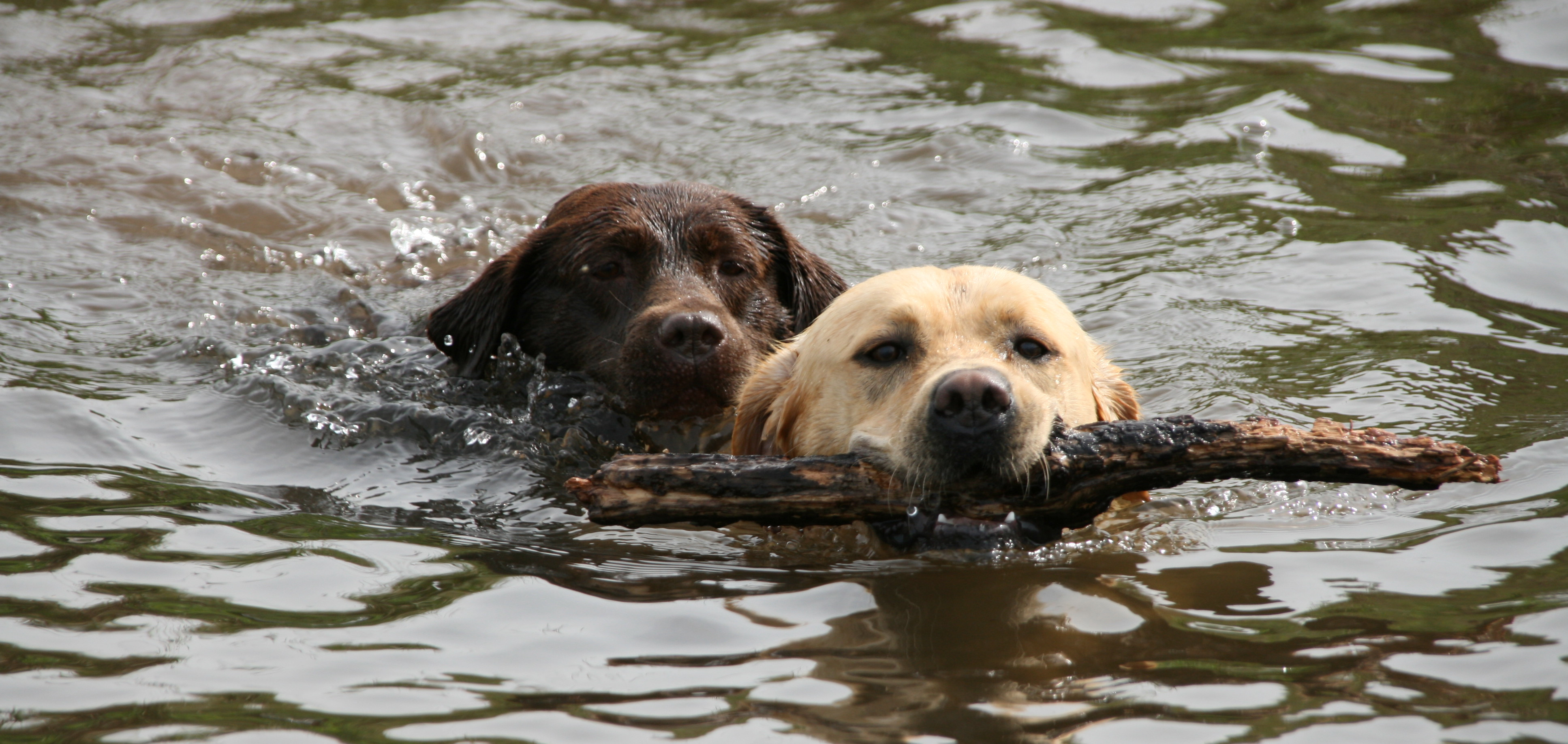 Playing in water